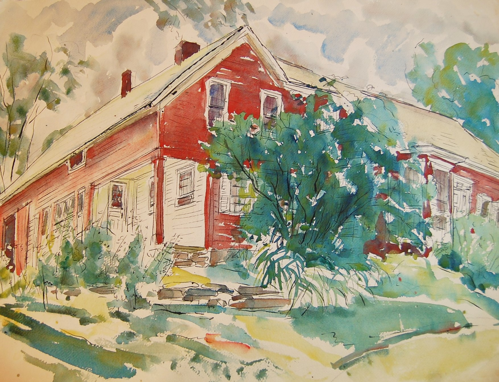 Bernadine's sketch of her house in Londonderry, VT, c. 1960s-1970s. Now home of the Londonderry Historical Society.